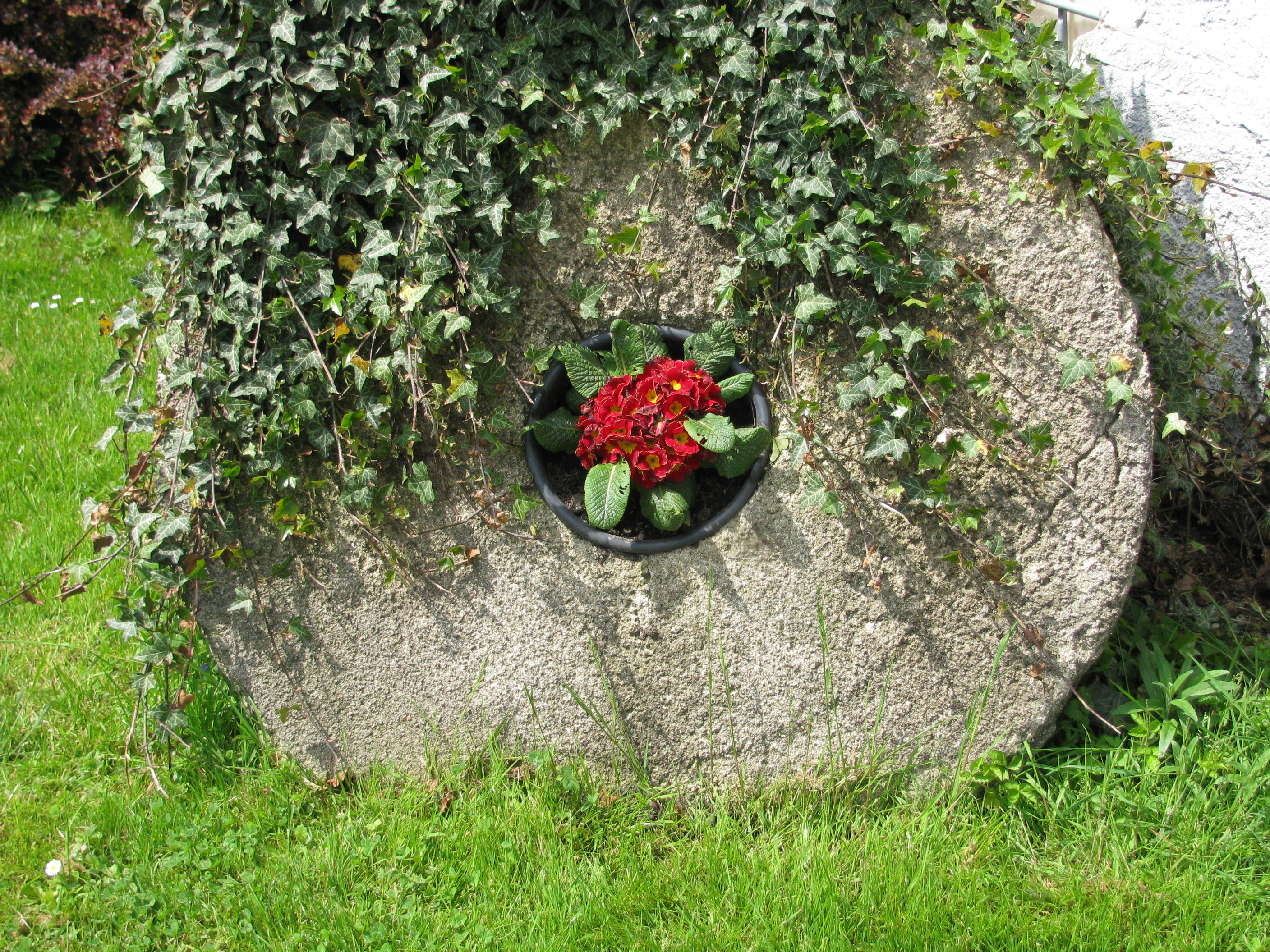 Germany - Baden-Württemberg - Bodenseekreis - Friedrichshafen - Ailingen: old millstone of "Reinachmühle"